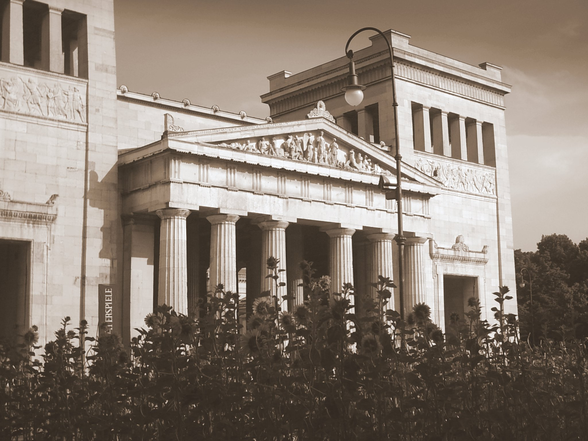 The "Propyläen", Königsplatz, Munich seen from Lenbachhaus Gallery.